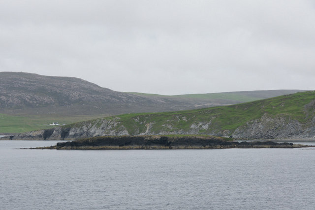 South Holm of Burravoe